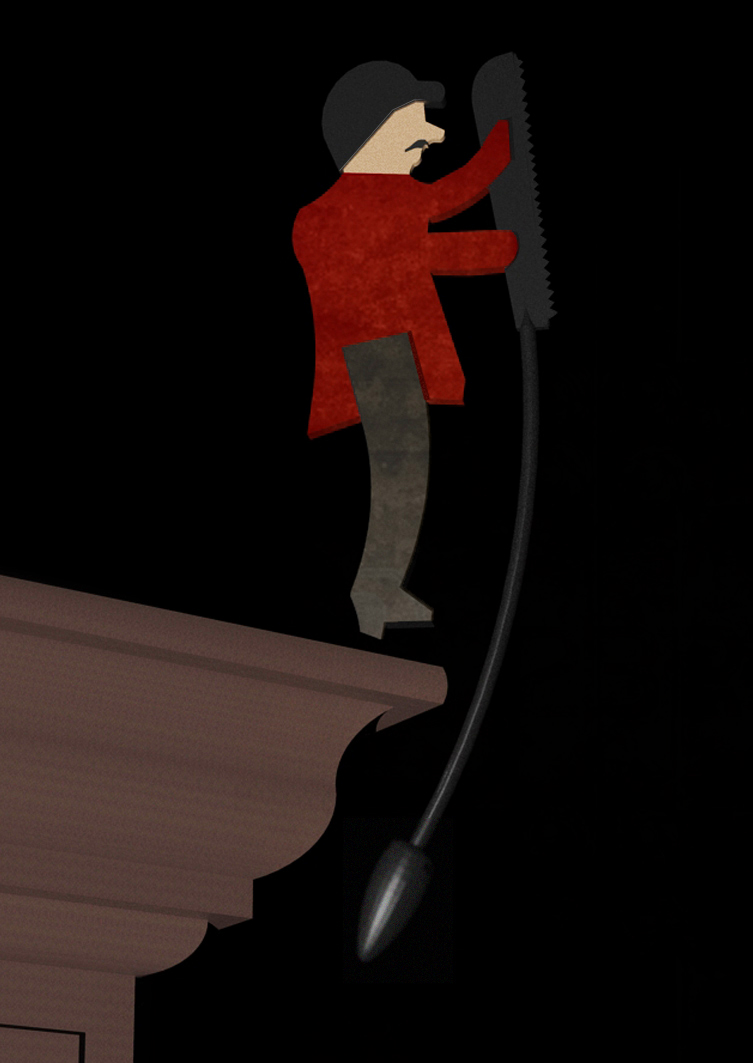 Another zoegeman (made from scratch, SketchUp, Kerkythea and Photoshop)